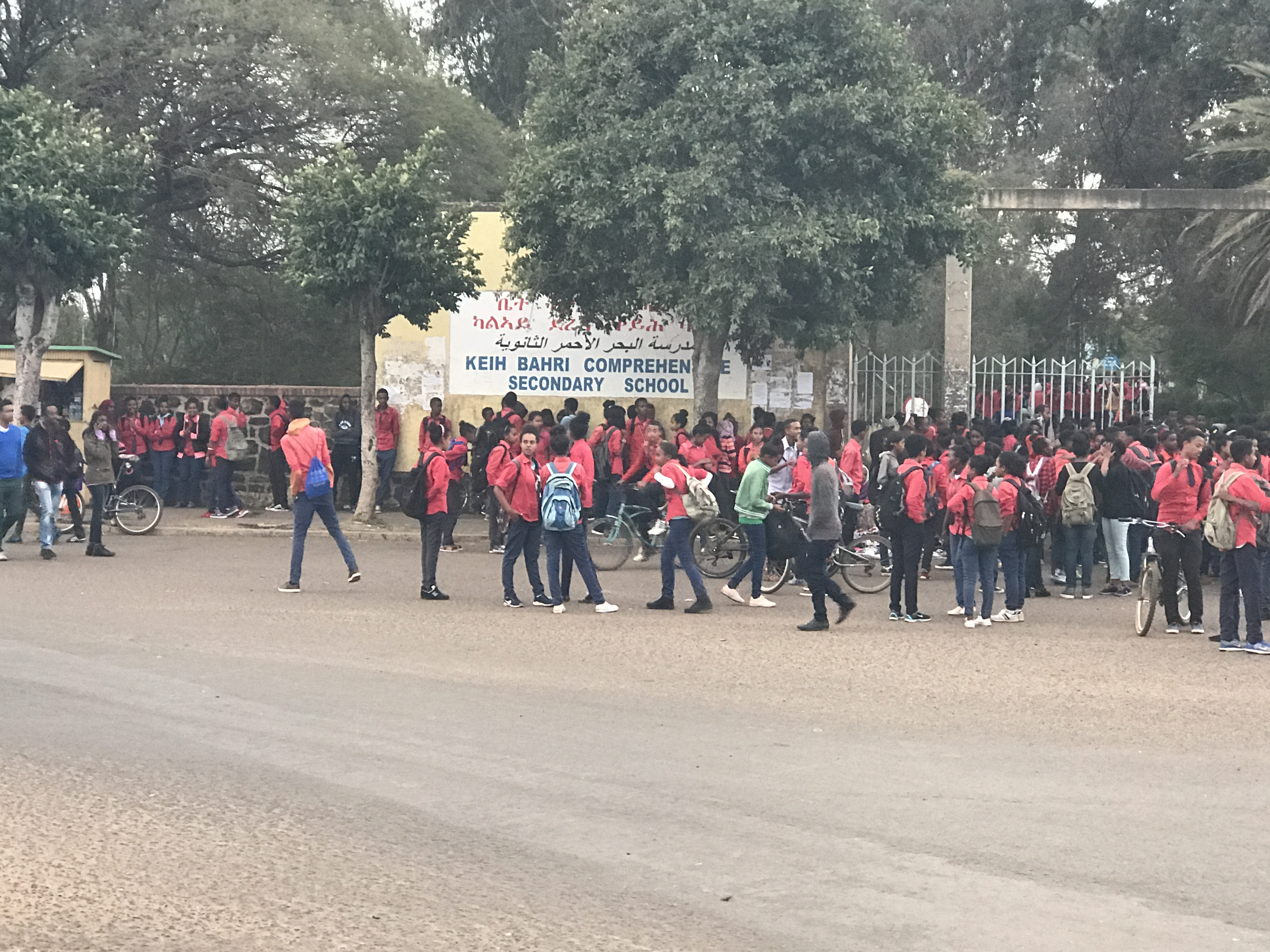 This is an image of "African people at work" from Eritrea